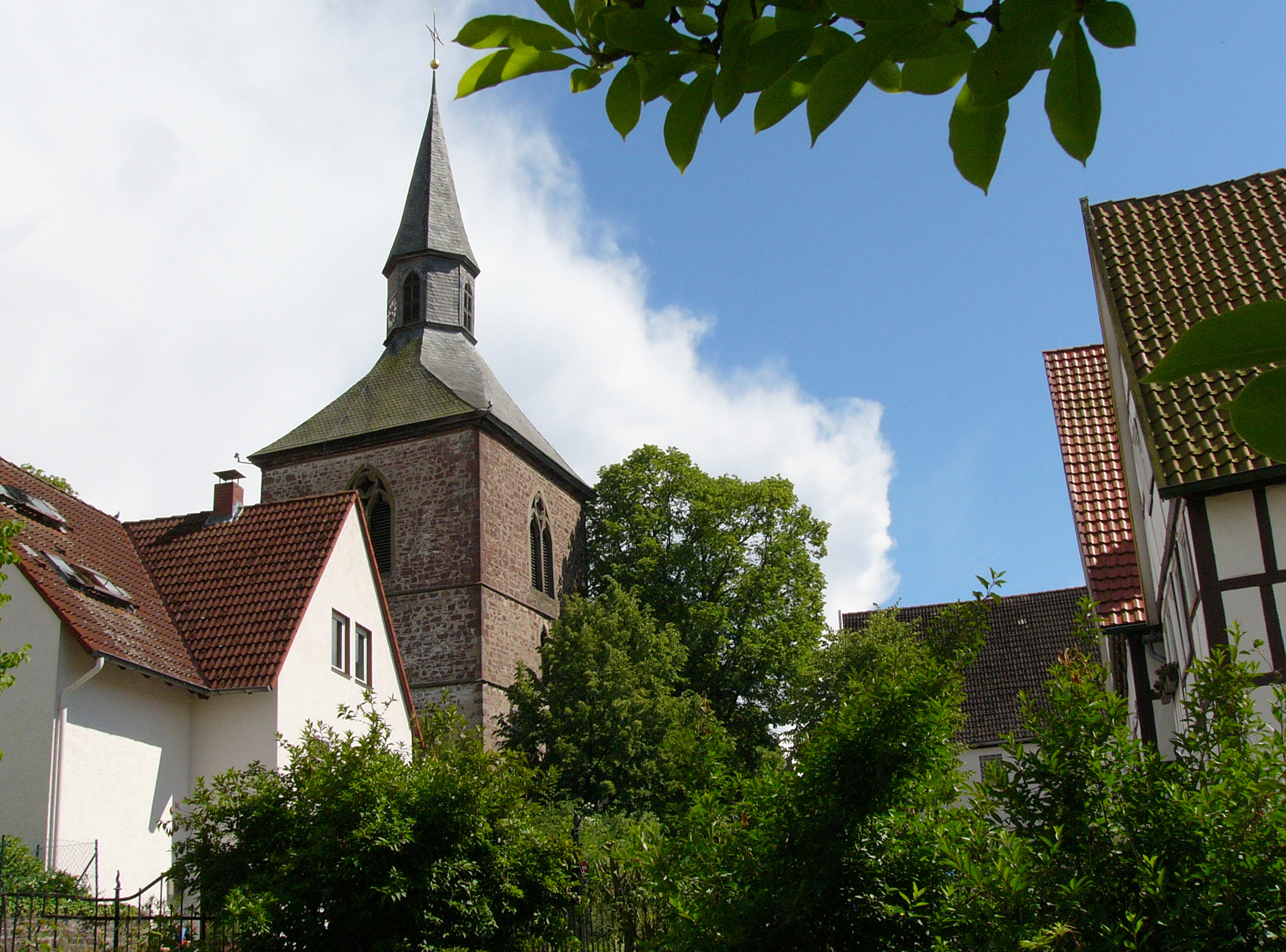 Bell tower in Blomberg, Germany